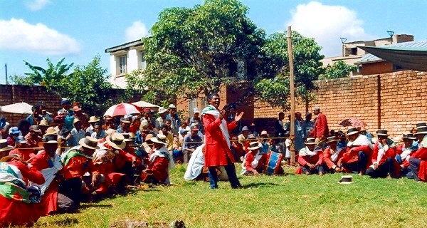 A hiragasy troupe elder performing kabary (oratory) in Antananarivo.